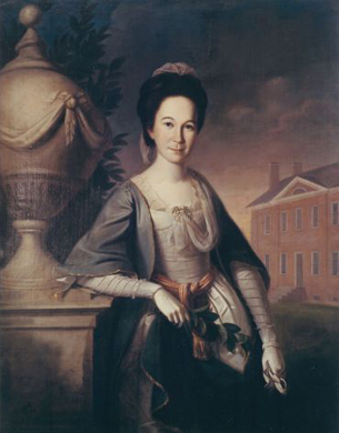 Artist Charles Willson Peale, 15 Apr 1741 - 22 Feb 1827 Sitter Margaret Tilghman Carroll, 1742 - 1817 Credit Line Owner: Mount Clare Museum House Website: 1770-1771 Object number 129-B Restrictions & Rights Usage conditions apply Type Painting Medium Oil on canvas Dimensions 127cm x 101.6cm (50" x 40")